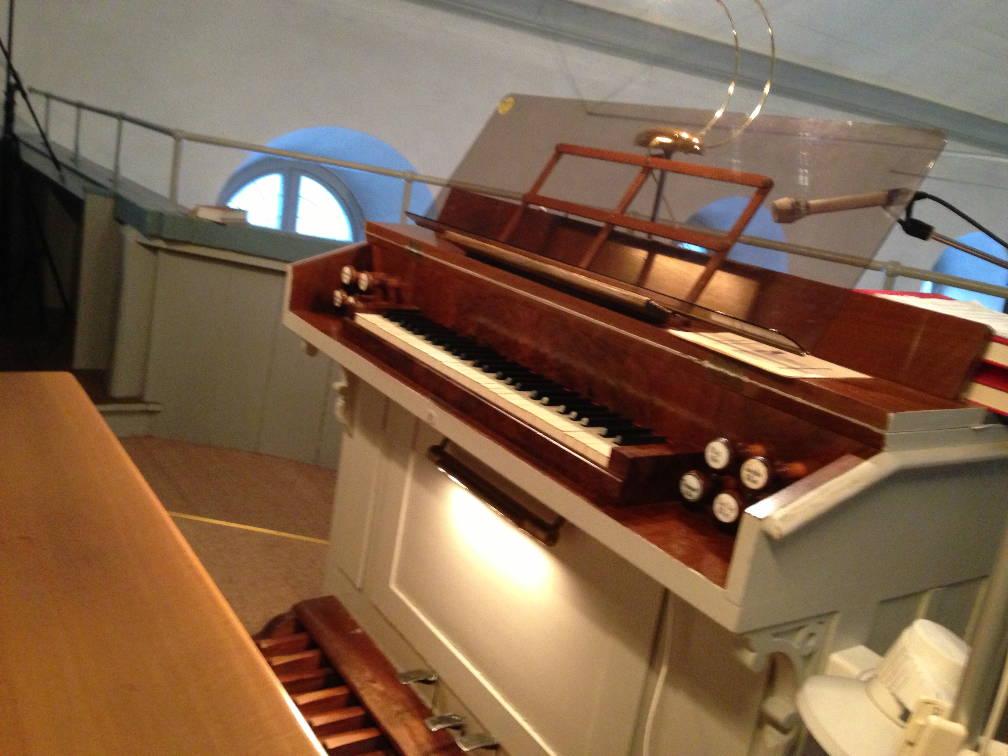 organ in Högsrums Church, Sweden